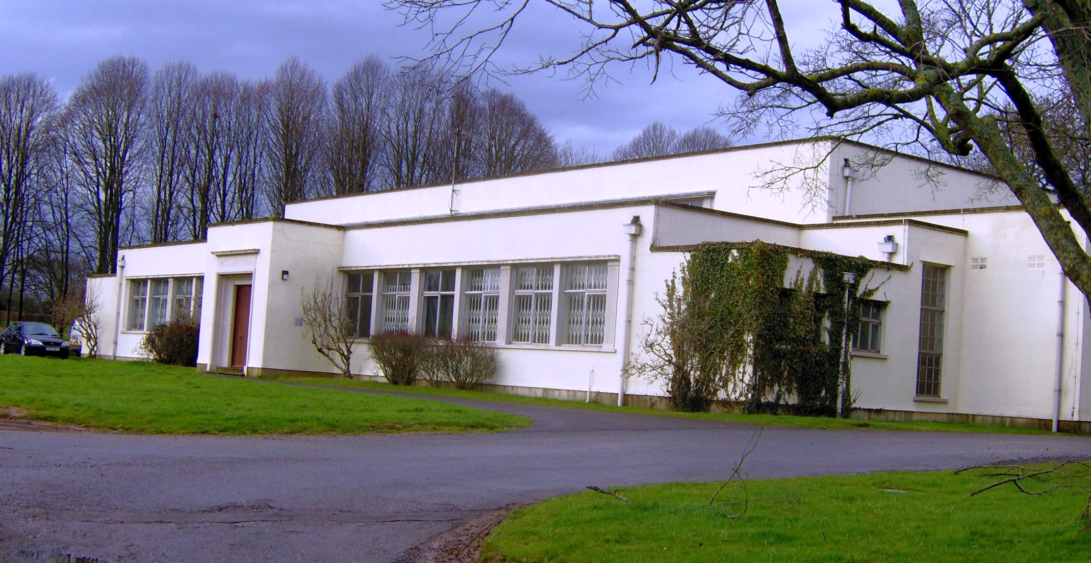 The pumping station at Chew Valley Lake. Taken by Rod Ward 16th Feb 2007